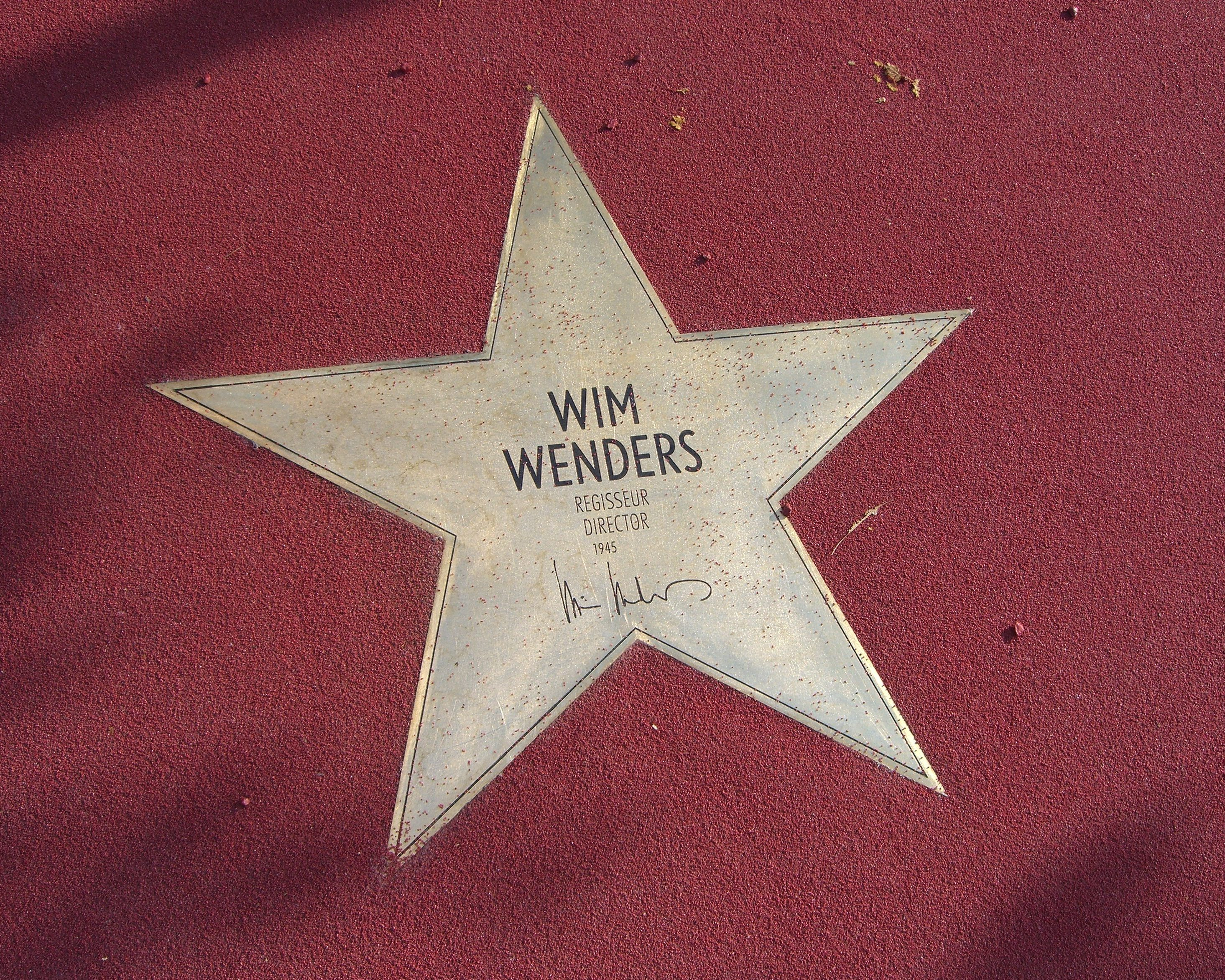 Star of Wim Wenders at "Boulevard der Stars" in Berlin.